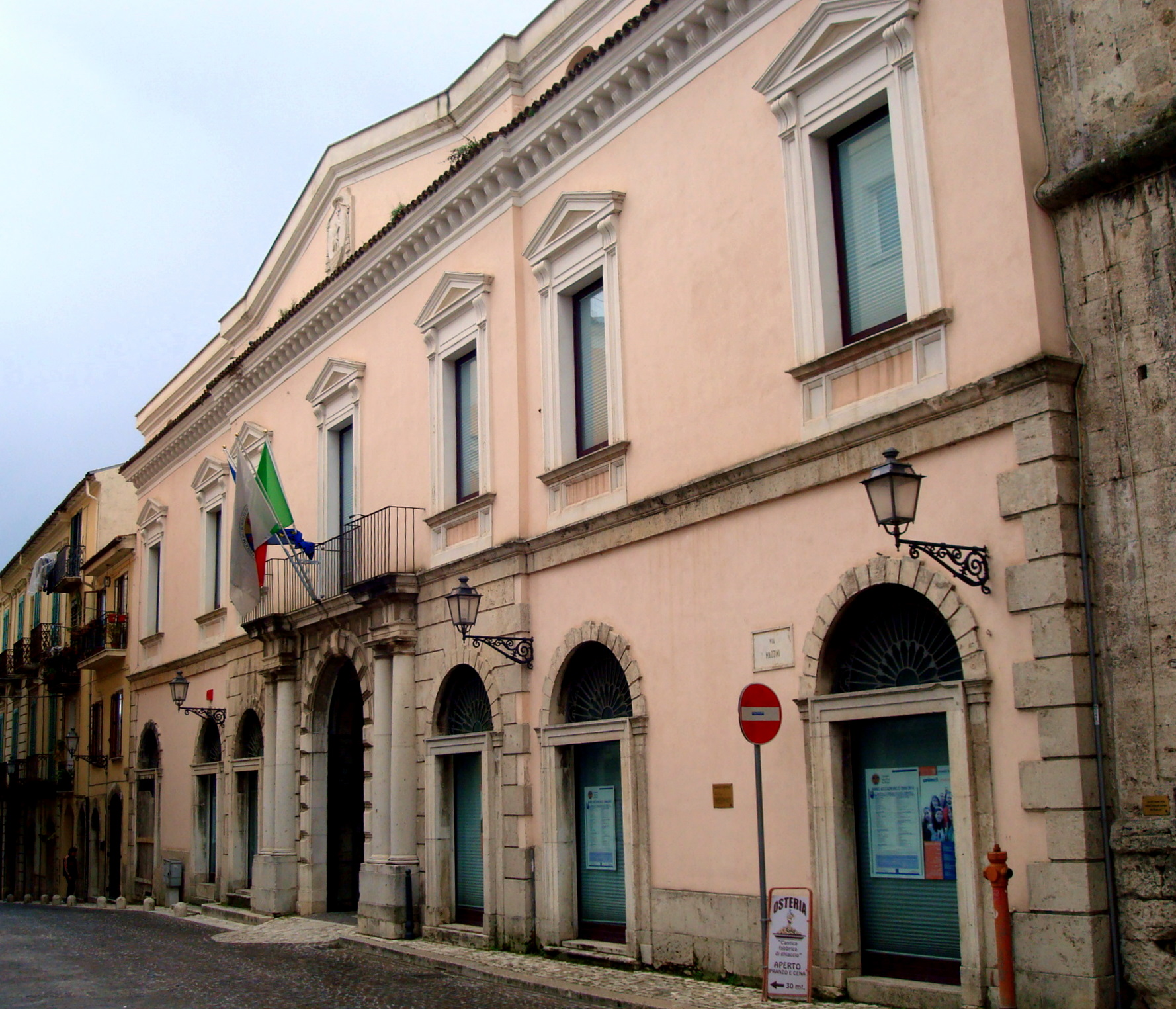 Palazzo dell'Università Isernia